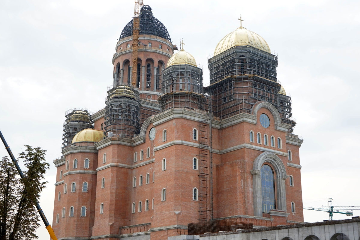 People's Salvation Cathedral - Bucharest (2019 July)